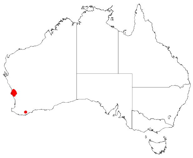 Hakea megalosperma Occurrence data downloaded from AVH on 22 November 2018 using